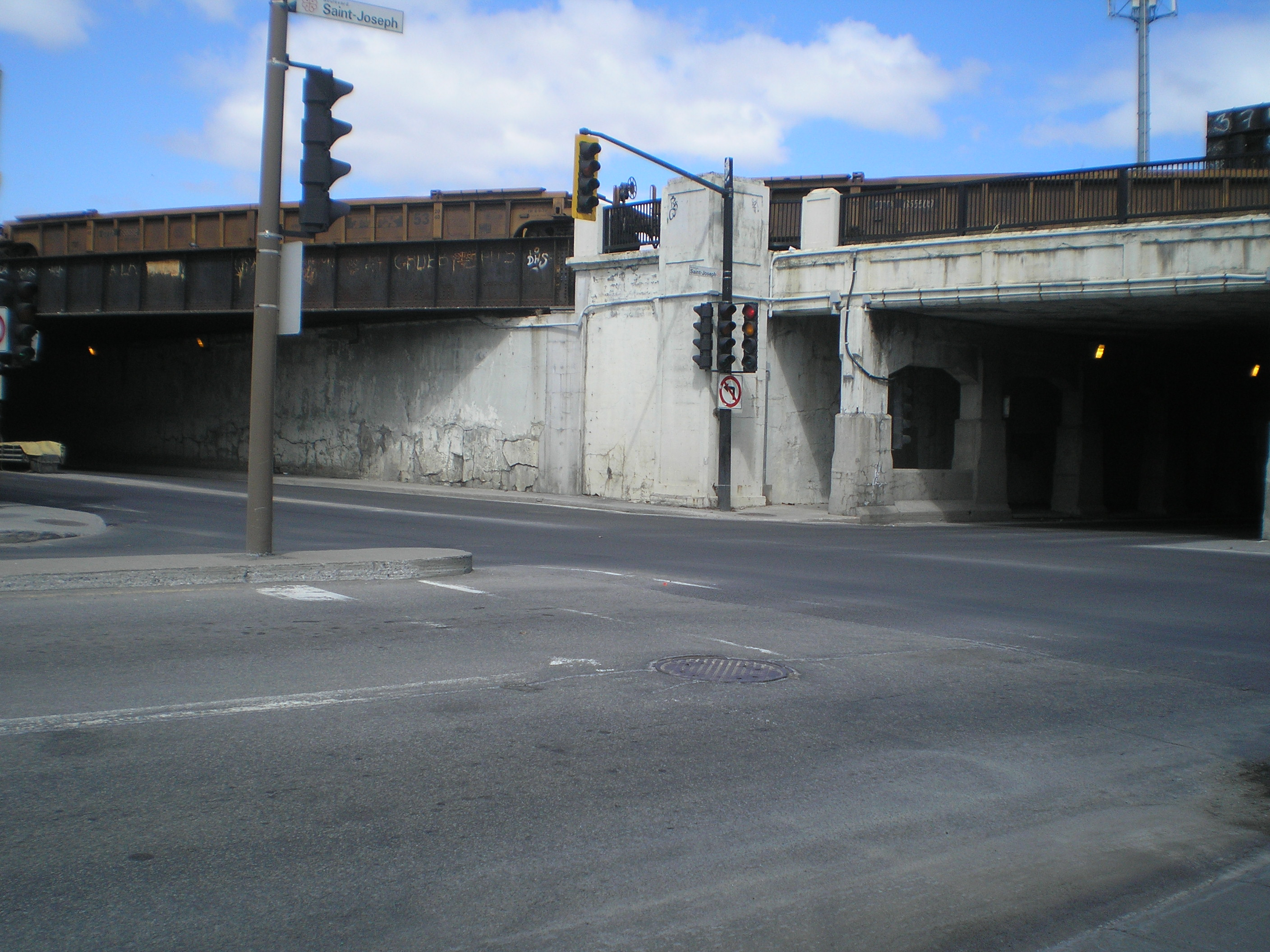 Intersection of Iberville Street and Saint Joseph Boulevard, Montreal.